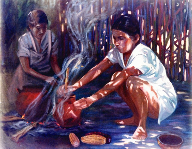 Picture of oil on canvas painting where we can appreciate the interior of a hut painted in purple and light-dark colors. We can also observe a pretty native young woman, cooking, accompanied by an older woman. In the ensemble, standing out we see the smoke that spreads the food's scent.